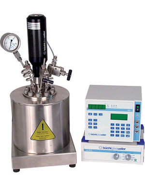 Synthesis autoclave